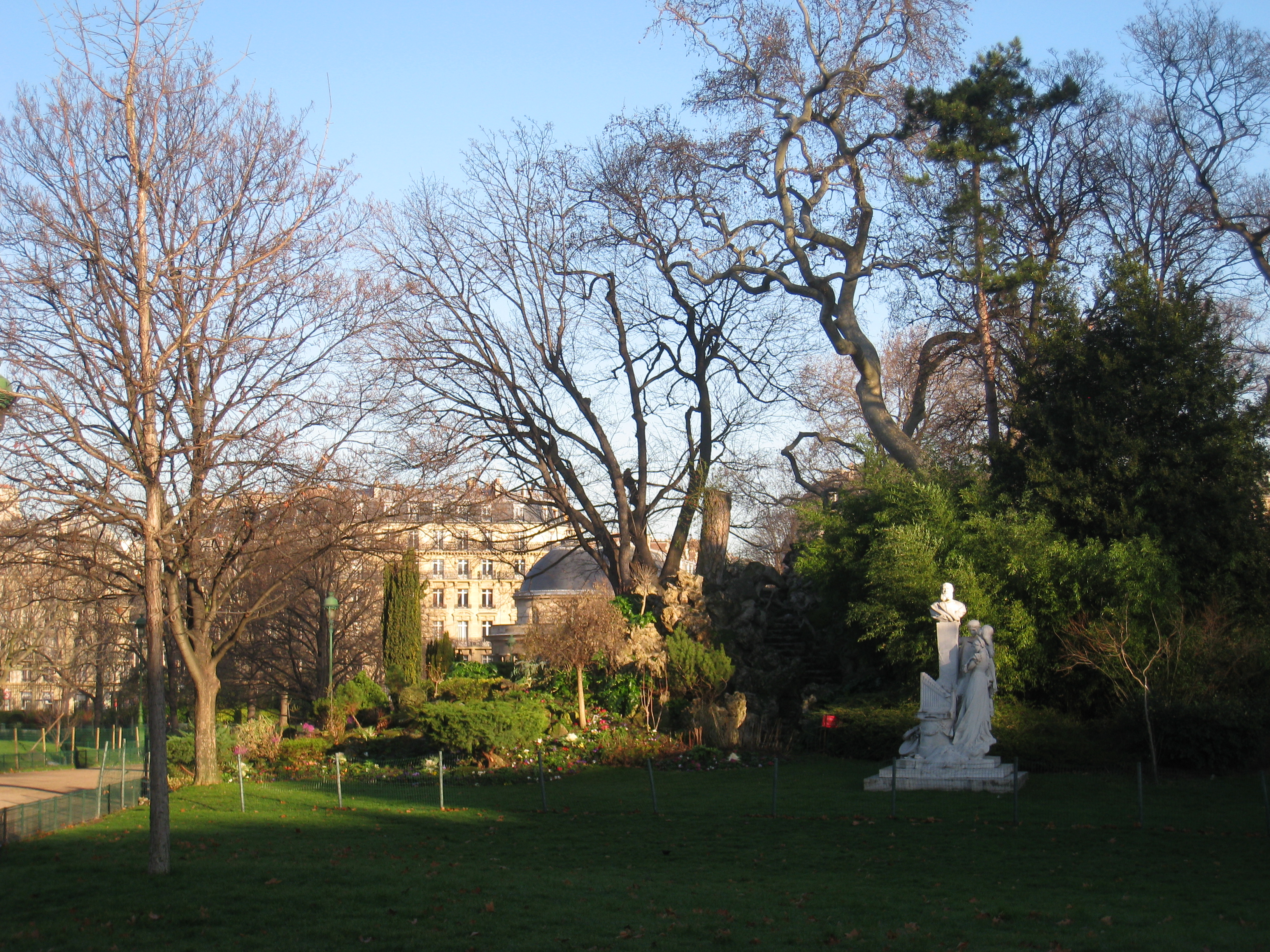 Parc Monceau, Paris, France - Charles Gounod memorial in context, sculpture by Antonin Mercié. The original work is old enough so that copyright (if any) has long since expired.